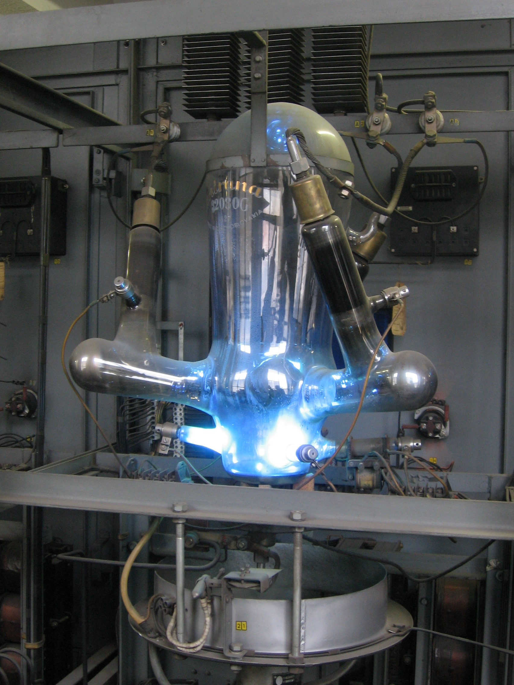 Mercury arc rectifier in Pars nova Šumperk (Czech rep.) for batteries loading